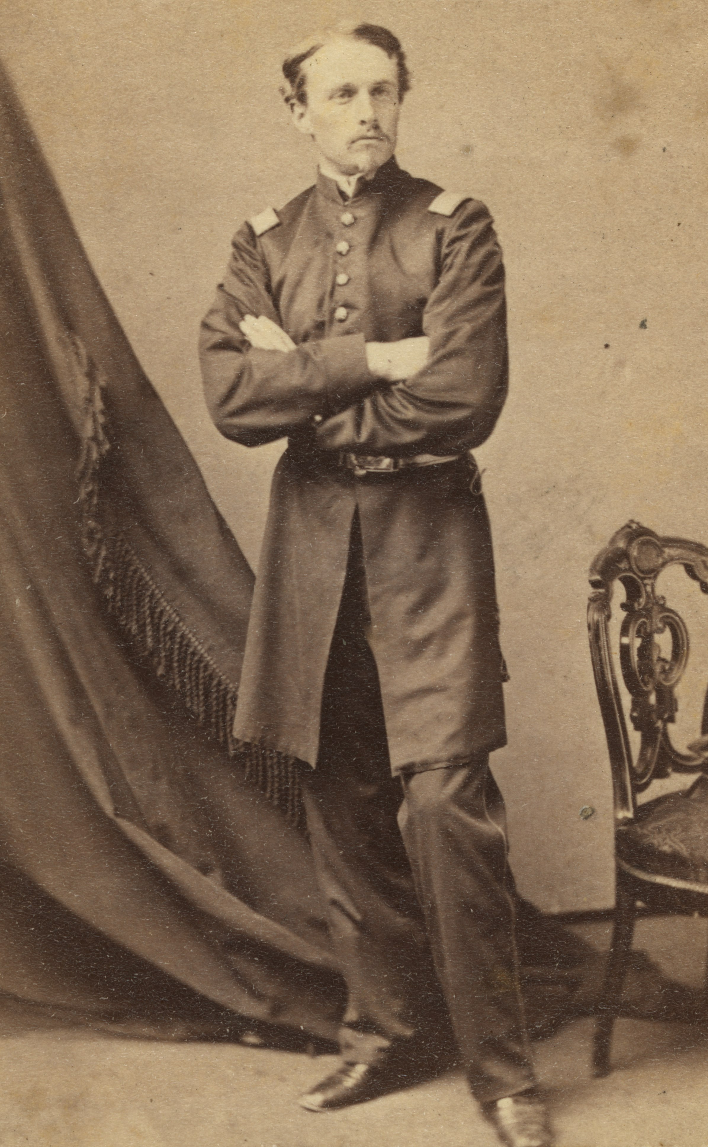 Title: Lt. Robert G. Shaw, standing, facing front Abstract/medium: 1 photographic print on carte de visite mount : albumen ; 10 x 6 cm.